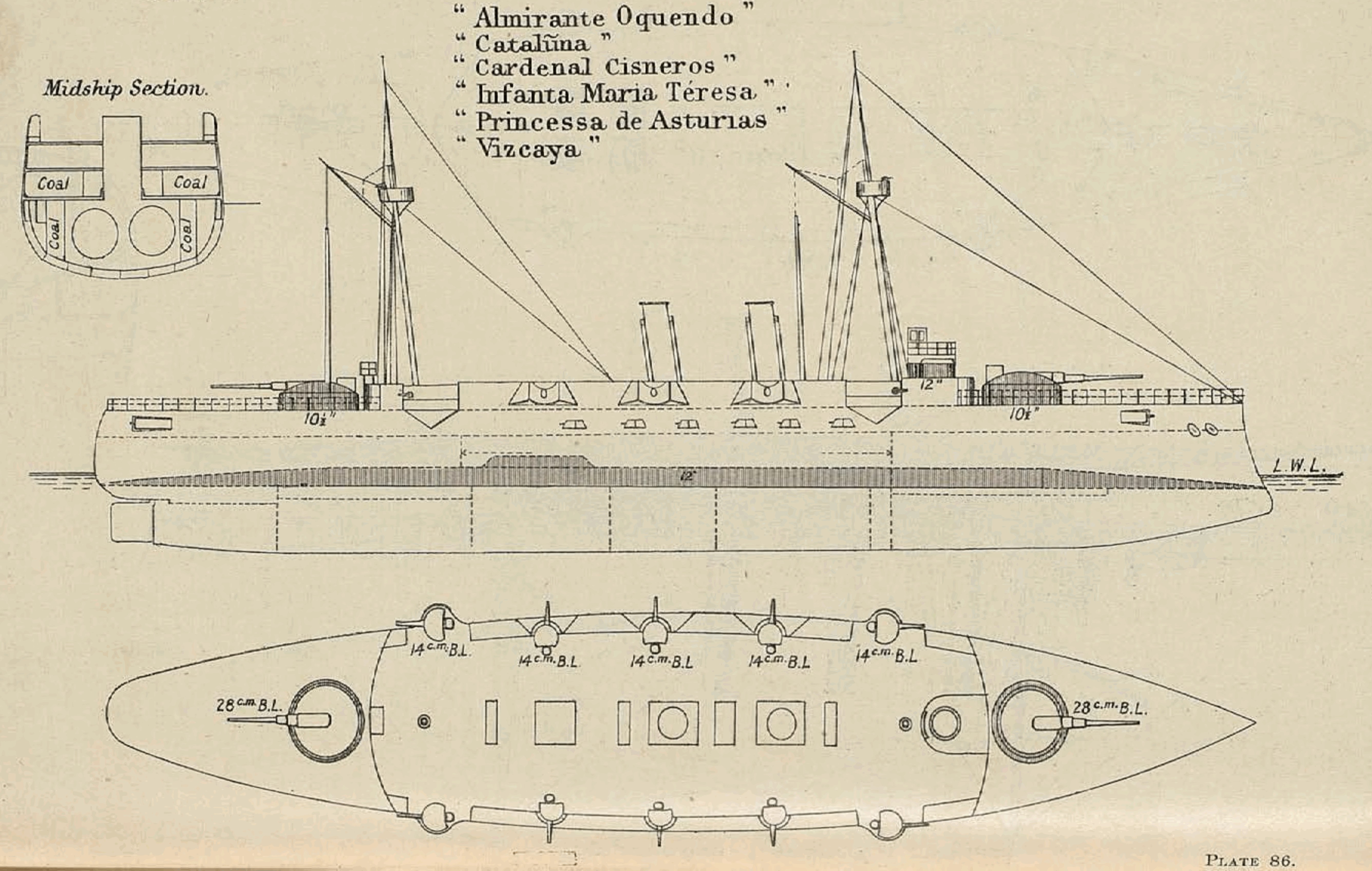 Right elevation and deck plan depicting Spanish Infanta Maria Teresa class armored cruisers Infanta Maria Teresa, Vizcaya and Almirante Oquendo. Brassey incorrectly includes the later Princesa de Asturias, Cardenal Jimenez de Cisneros and Cataluña as part of this class. Top diagram (right elevation) shows armour thickness in inches. Bottom diagram (deck plan) shows gun sizes in cm.